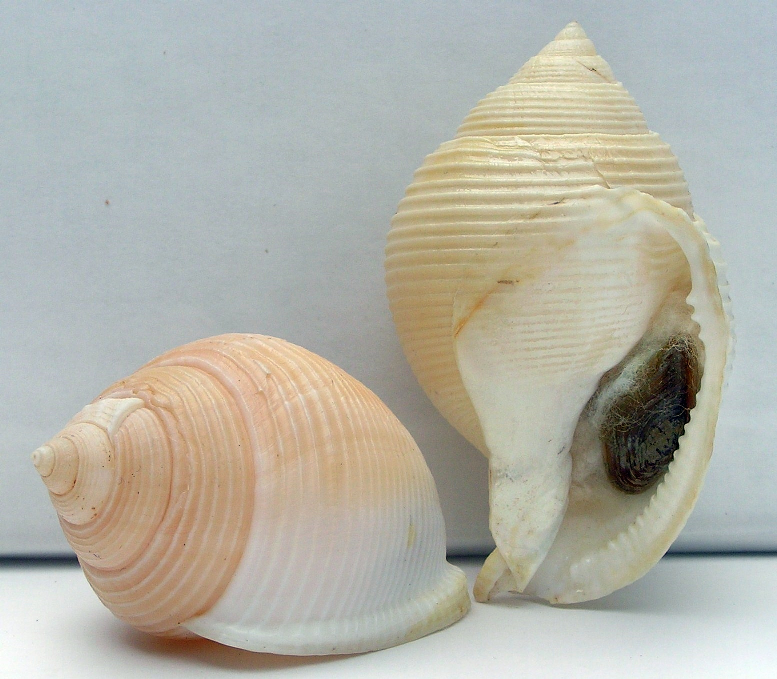 Galeodea rugosa (Linnaeus, 1771) , a helmet shell in the family Cassidae; Italy